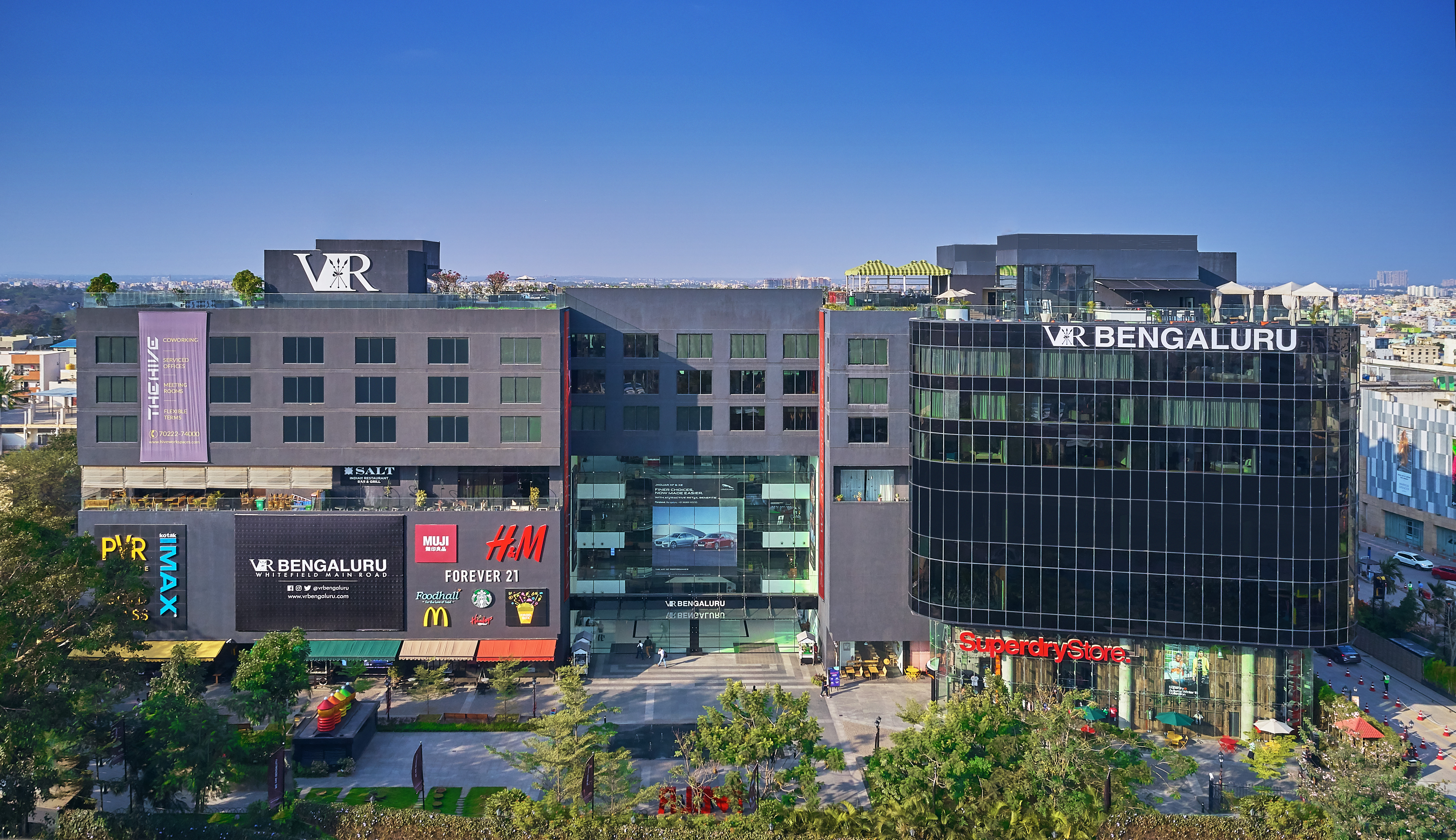 VR Bengaluru